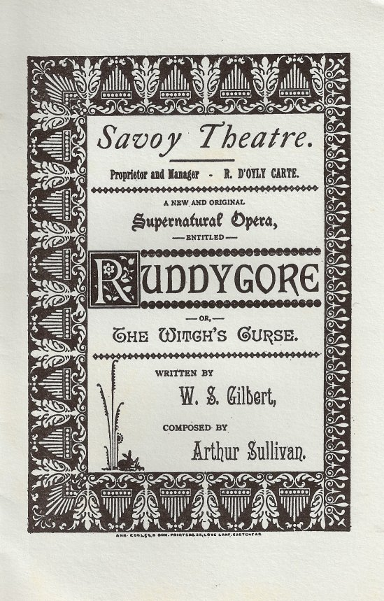 Scan of original 1887 programme for Richard D'Oyly Carte's production of Ruddigore.